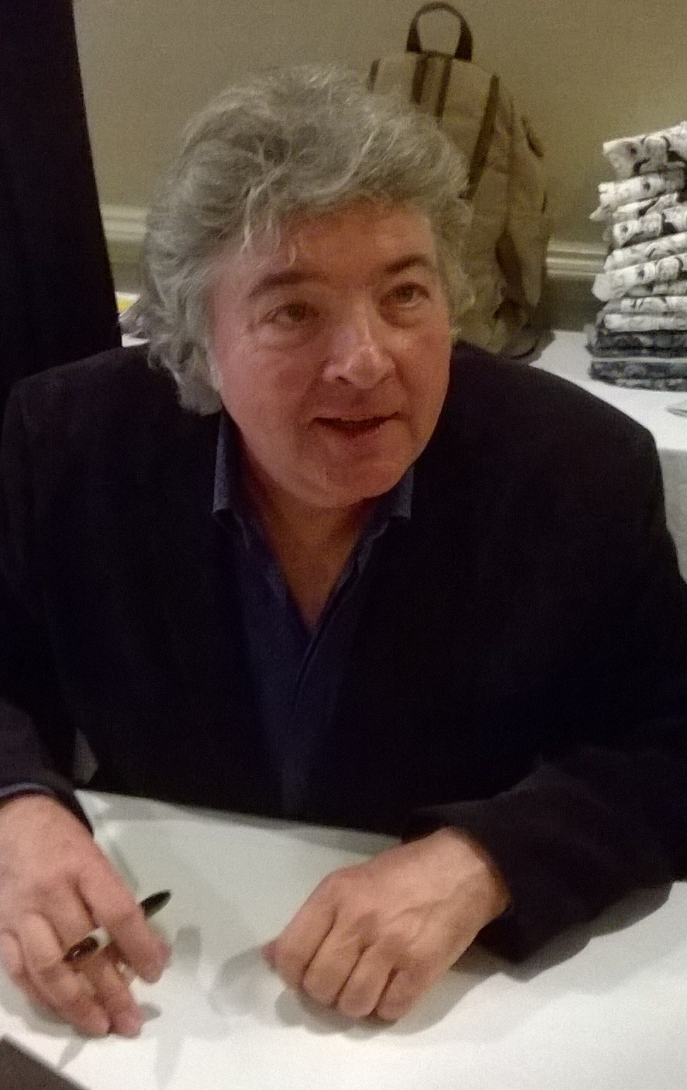 Drummer Steve Holley (Wings, Reckless Sleepers), Rye, New York, 2016